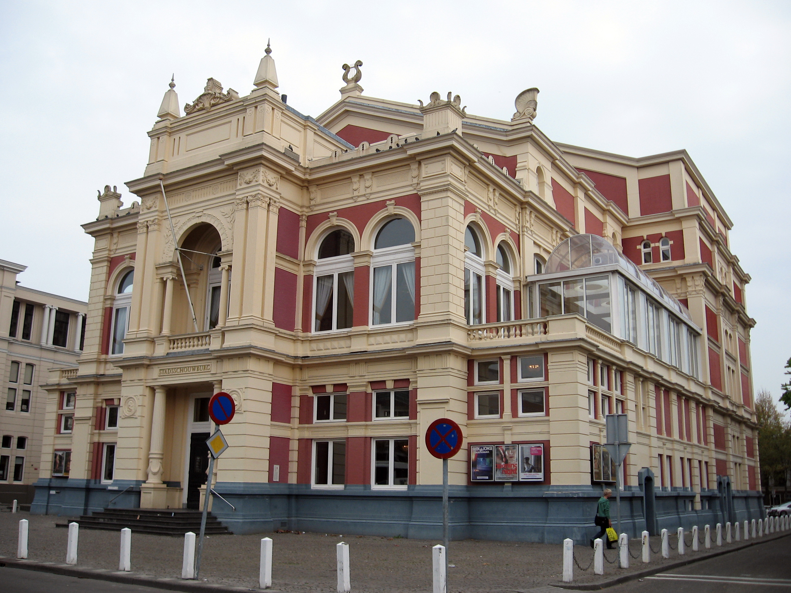 Photo of the city theatre in Groningen